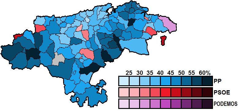 Most-voted party in Cantabria municipalities, showing vote share obtained, in the Spanish general election, 2015.